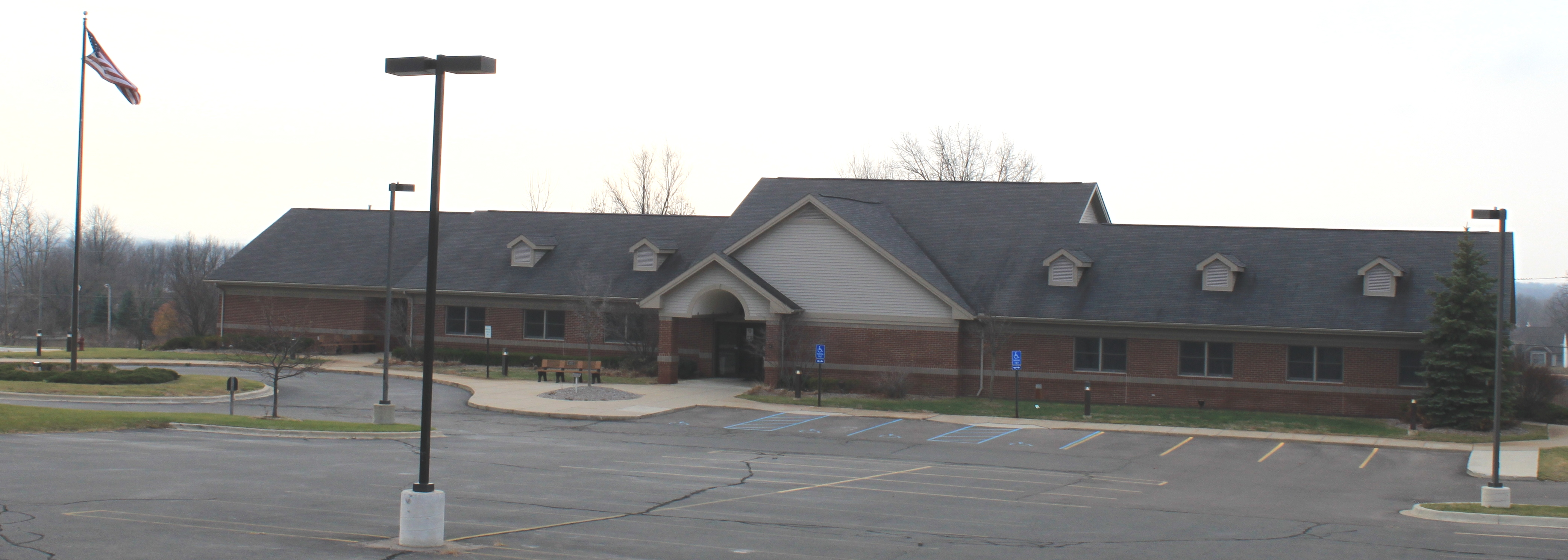 Lyon Township, 58000 Grand River Avenue, New Hudson,(Oakland County) Michigan